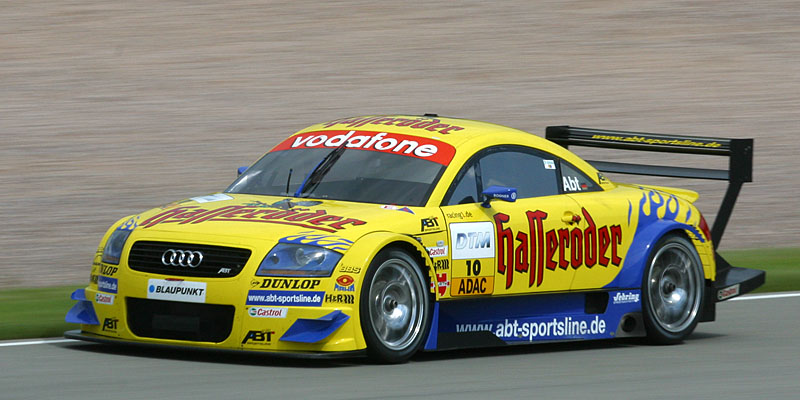 Christian Abt, Audi TT Abt, DTM on Sachsenring Circuit.